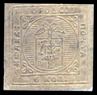 Tiflis stamp, 1857, 6 kopecks. Another copy of the stamp.